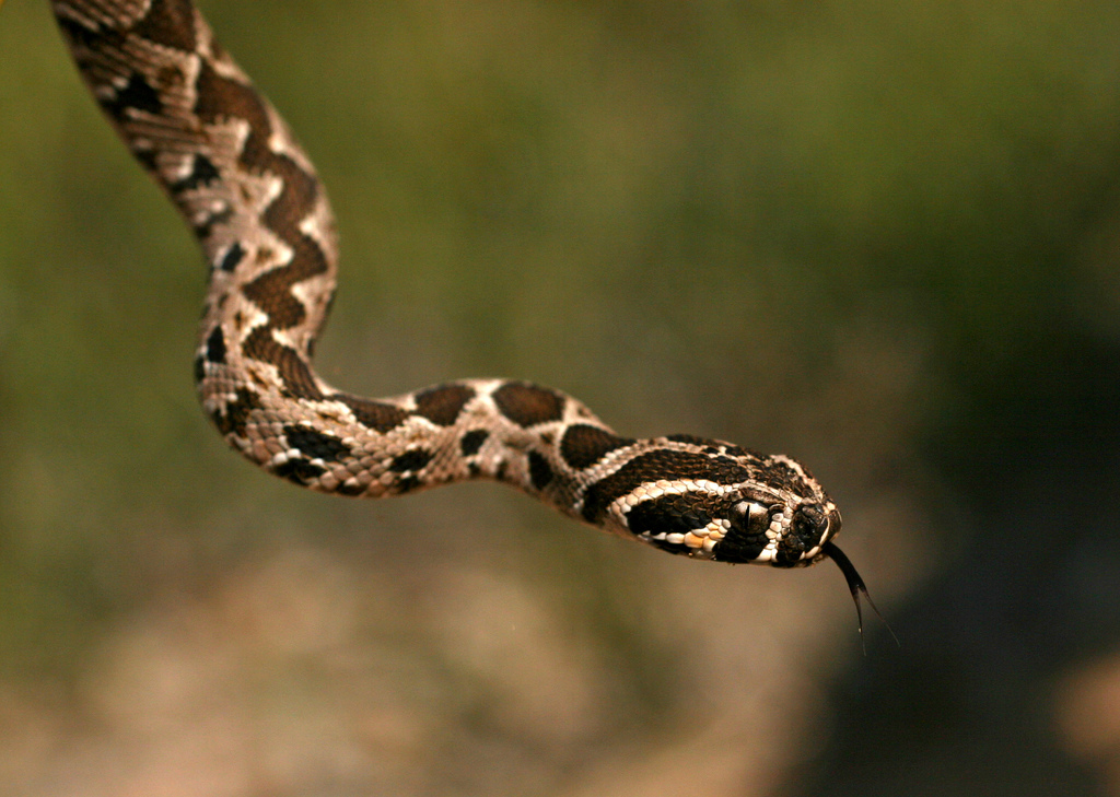 palestine viper רישיון נוצר על ידי משתמש:גיא חיימוביץ